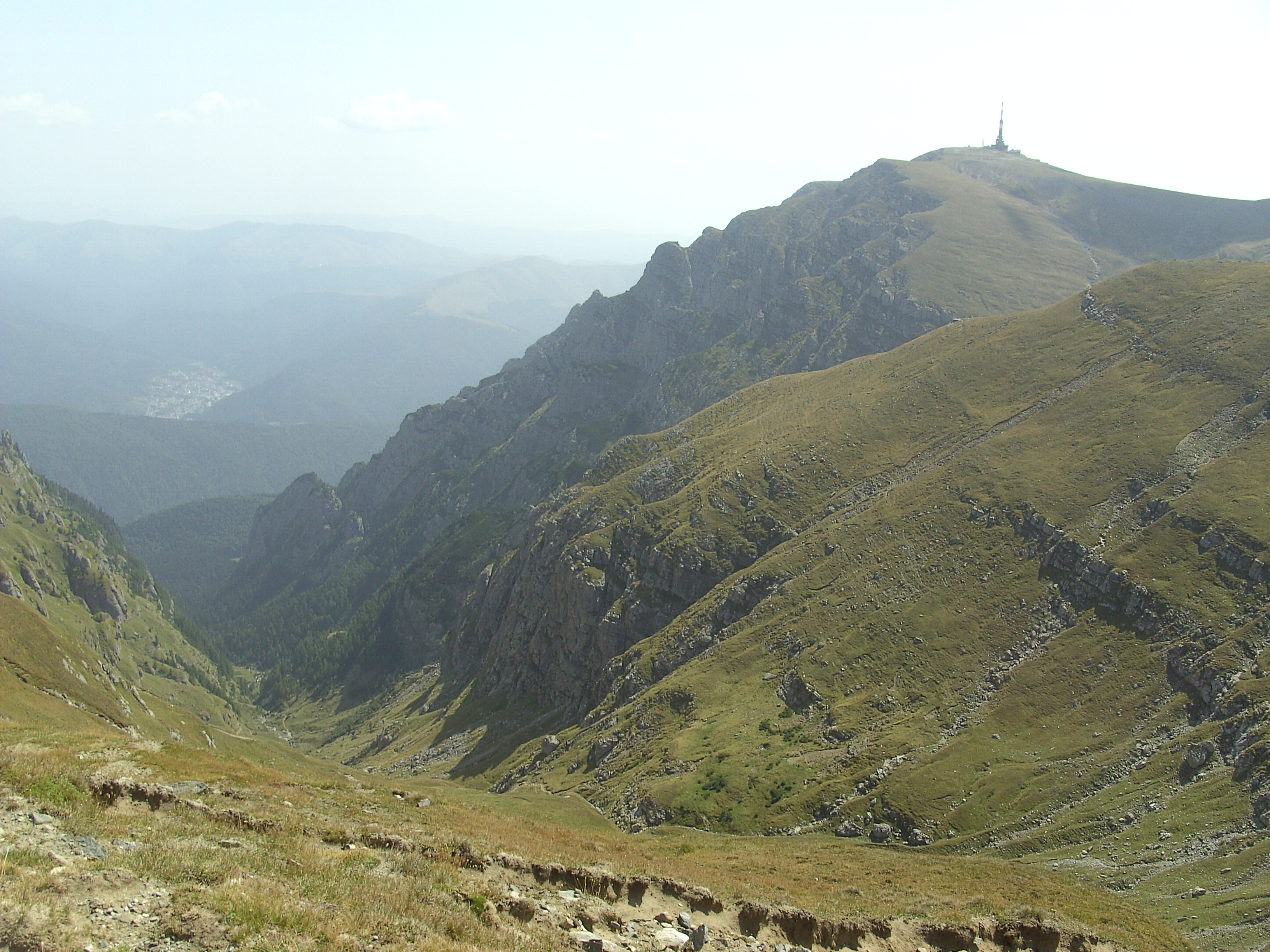 Costila Peak